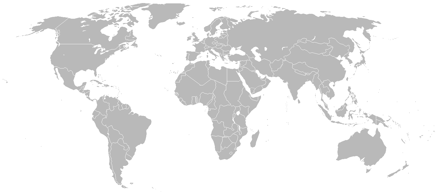 Map of the world in September 1938.